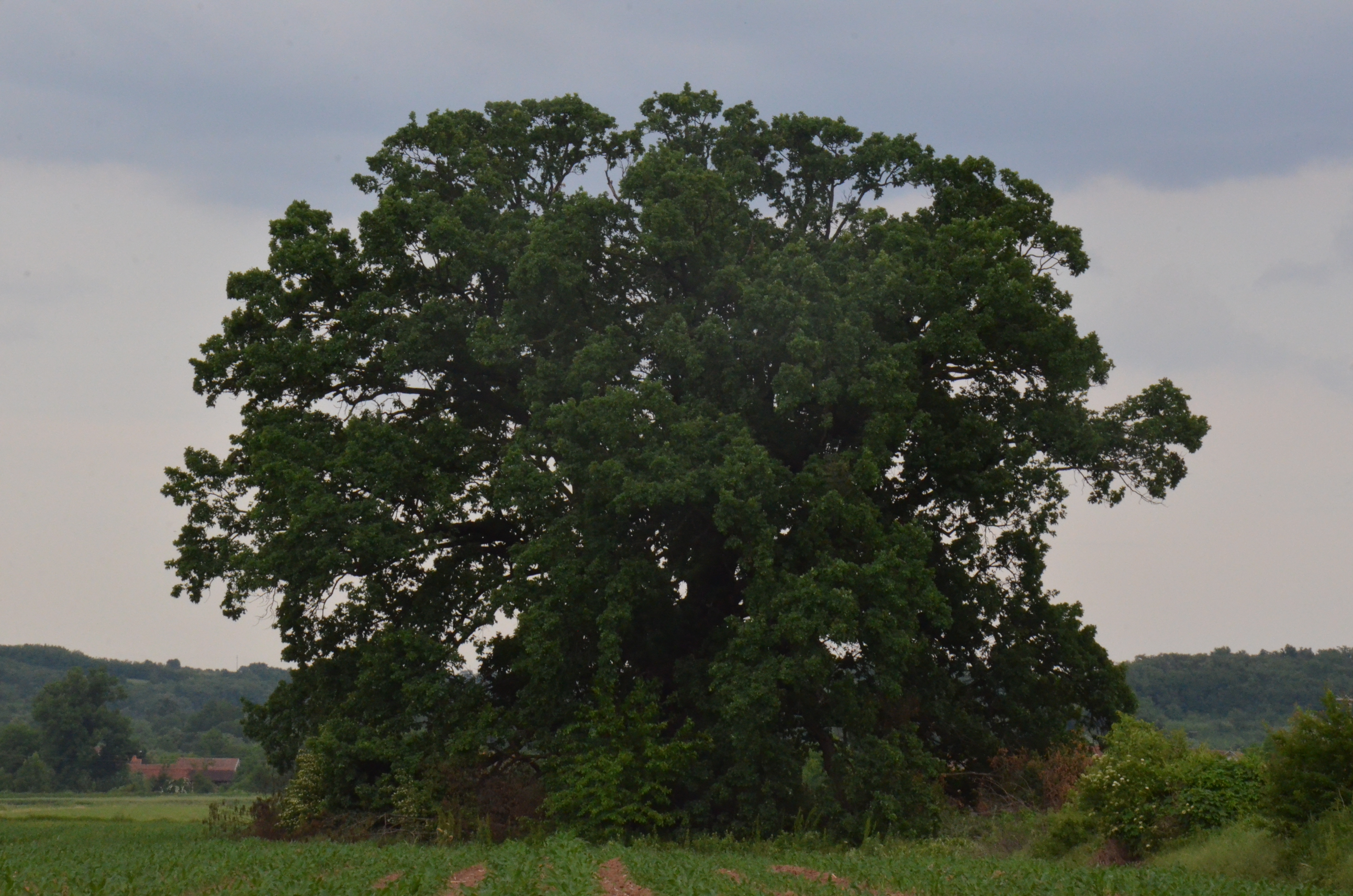 Zapis - Sacred Tree, Oak in village Sedlare, municipality Svilajnac, Serbia